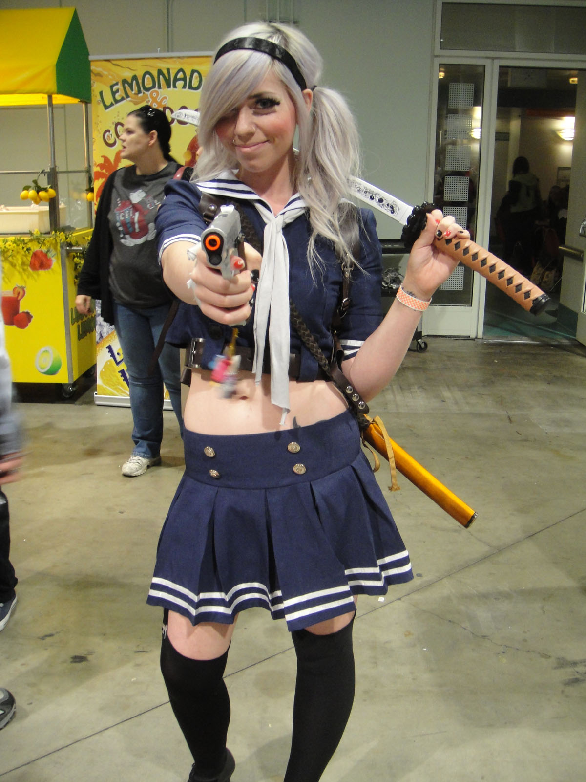 photo 2011 Pop Culture Geek taken by Doug Kline If you're interested in higher resolution versions of my images, contact me via my profile page.